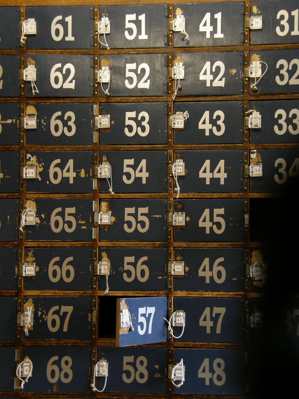 minatoyama-onsen 湊山温泉下駄箱